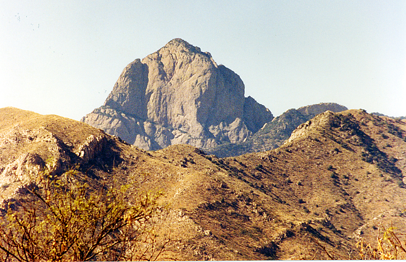 Baboquivari Peak, Sonoran Desert, Arizona, United States. Picture 1990.